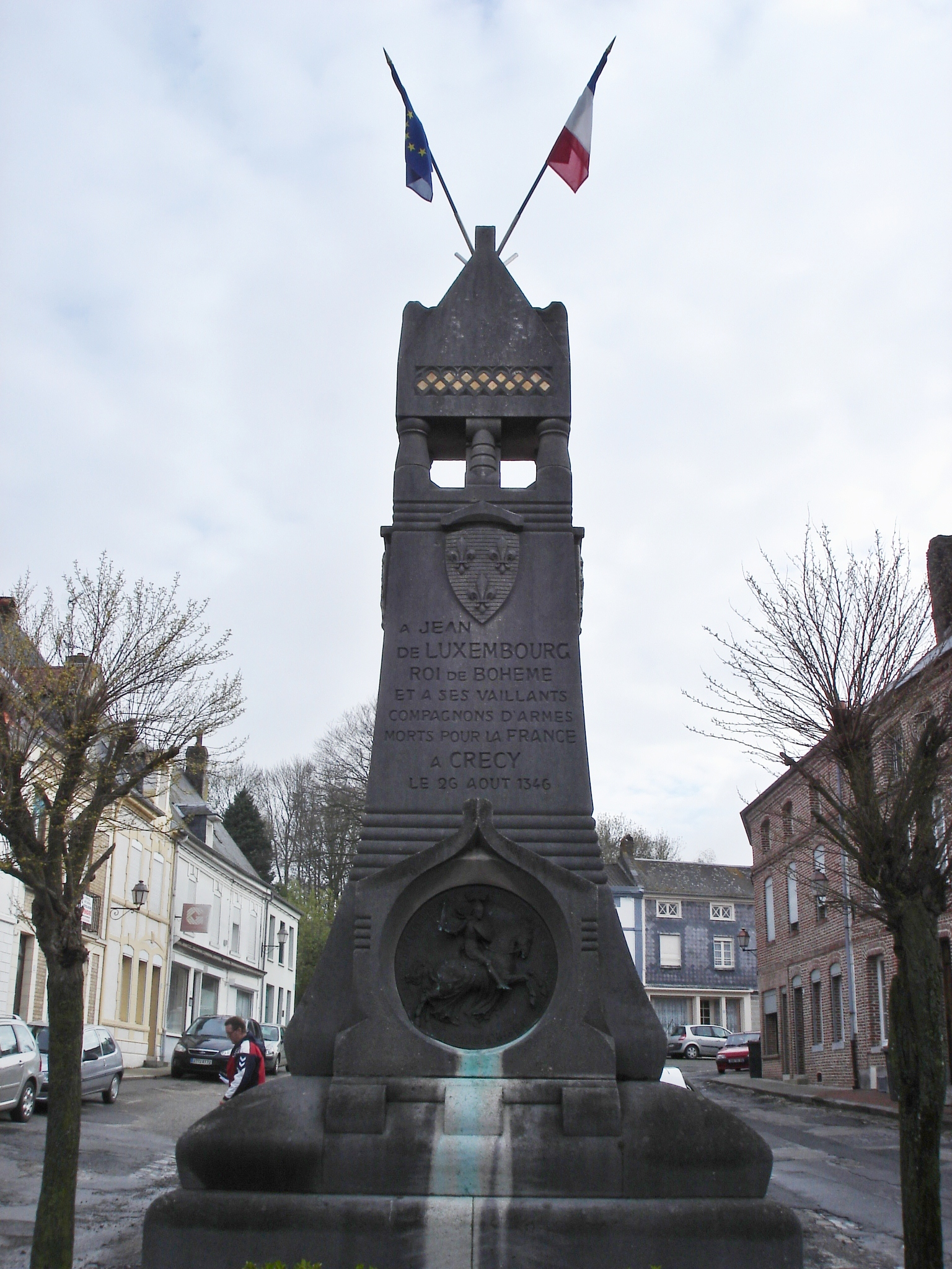 Memorial to Jean de Luxembourg, killed at the battle of Crécy in 1346, in the village square of Crécy-en-Ponthieu, Picardie, France